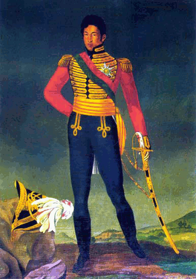 Radama I (c. 1810-1828)